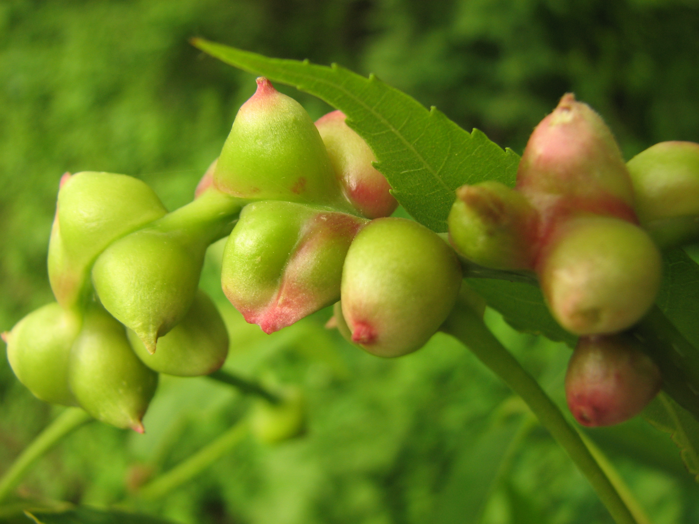 Galls of Phylloxera sp, on pignut hickory tree. Size: ~1 mm or less. Gall ~1cm. Horsham trail, Montgomery County, Pennsylvania, USA.